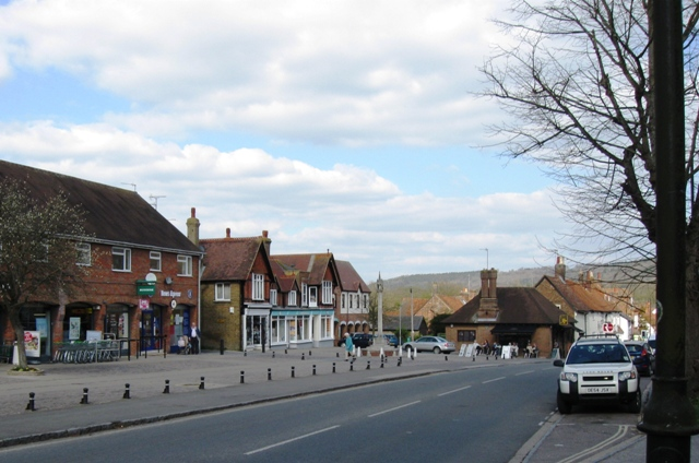 The Market Place in Wendover High Street While there are many old buildings in Wendover High Street the architecture in shows that this area has clearly been redeveloped in the twentieth century, the shop on the left being a Budgens Supermarket. The open area is used for a weekly market. The Chiltern Escarpment (in particular Wendover Woods) can be seen in the distance.